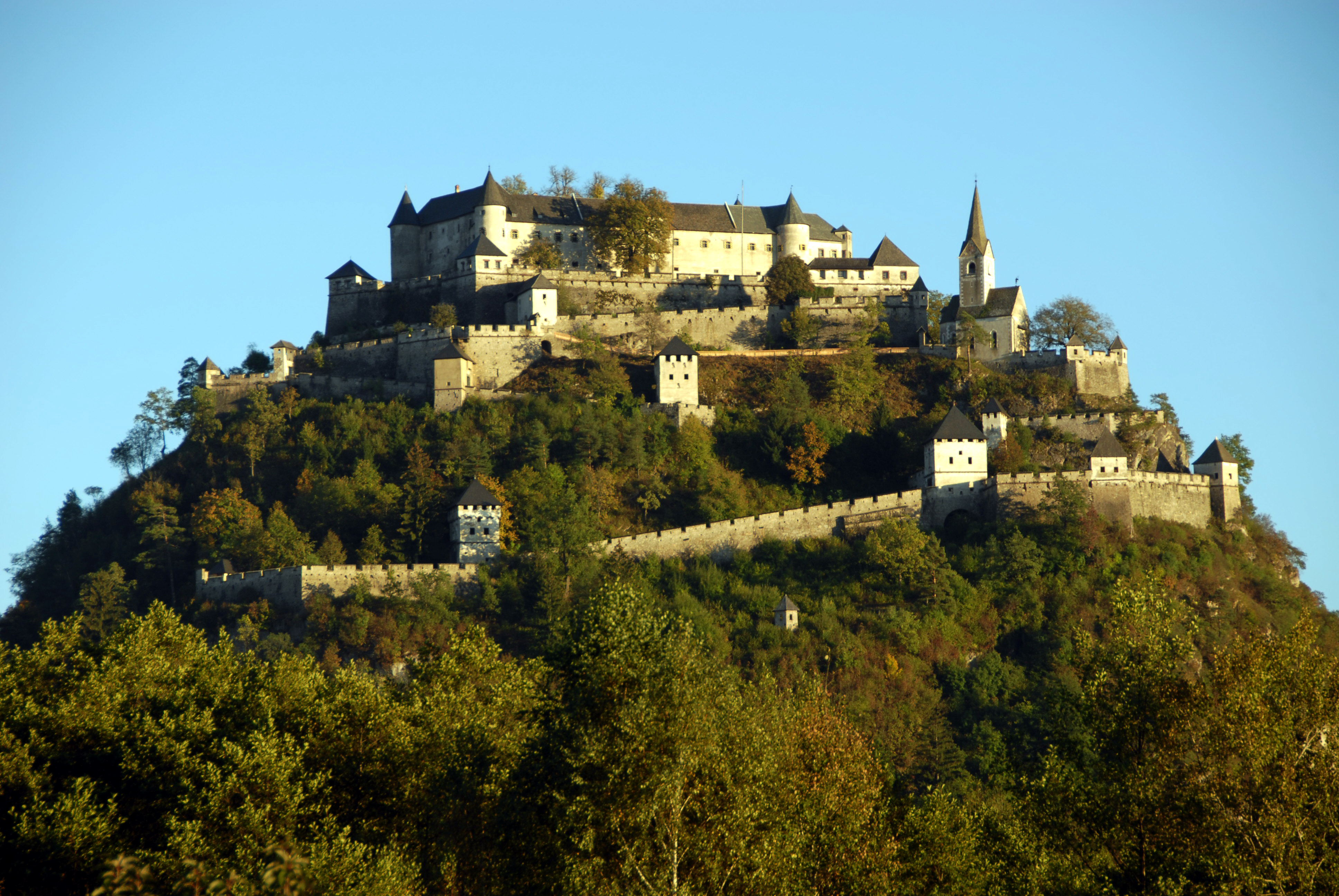 Castle Hochosterwitz, municipality Sankt Georgen am Laengsee, district Sankt Veit, Carinthia, Austria, EU